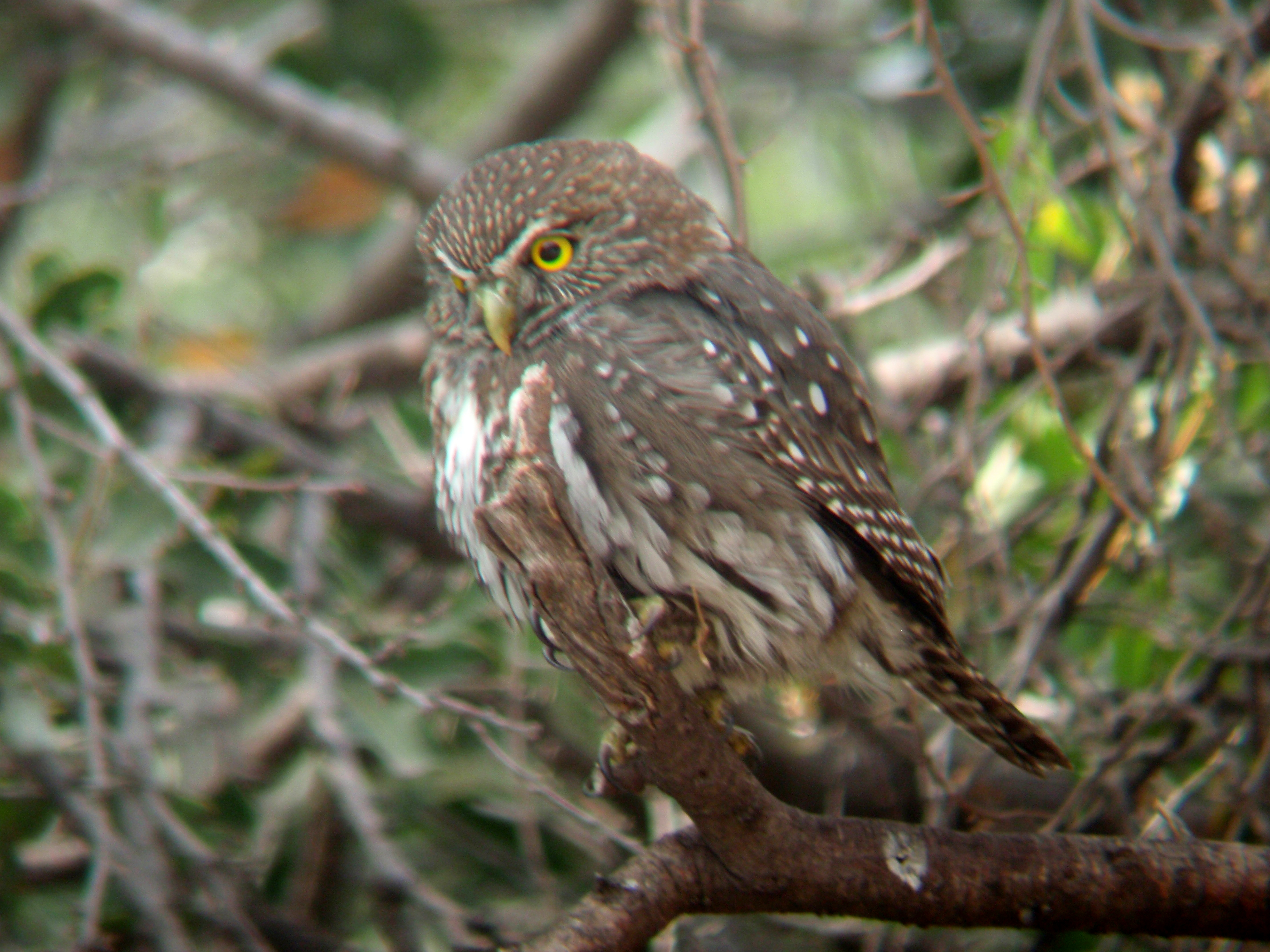 An Austral Pygmy-owl perched in Rio de los Cipreses National Reserve in central Chile.